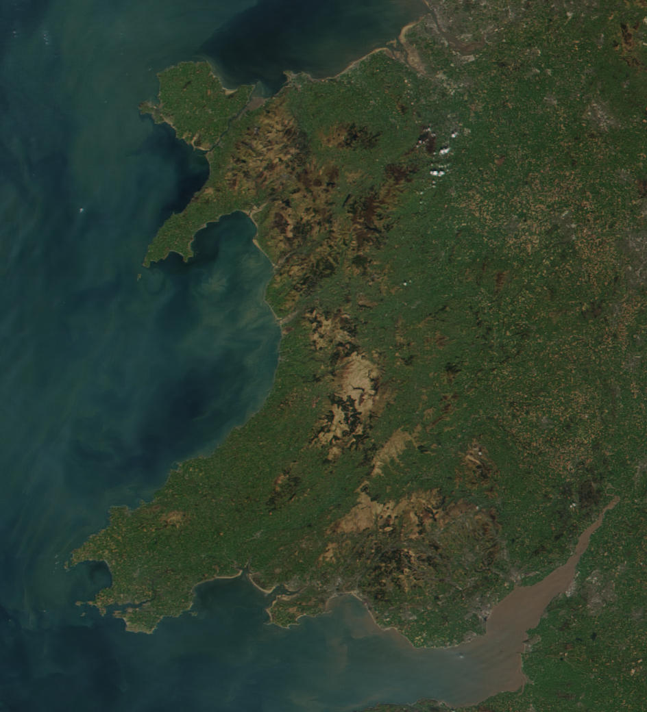 cropped version of Image:Satellite image of Great Britain and Northern Ireland in April 2002.jpg